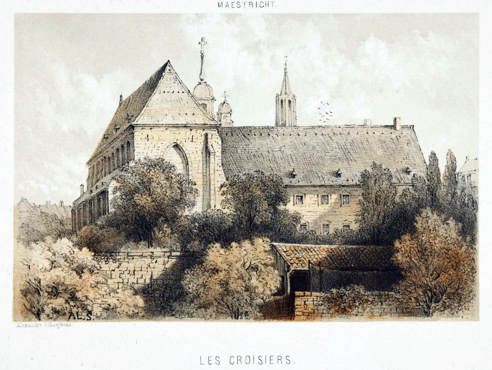 View of the Medieval monastery of the Croziers (Kruisherenklooster) in Maastricht, the Netherlands. Coloured lithograph by local artist Alexander Schaepkens, mid-19th c).